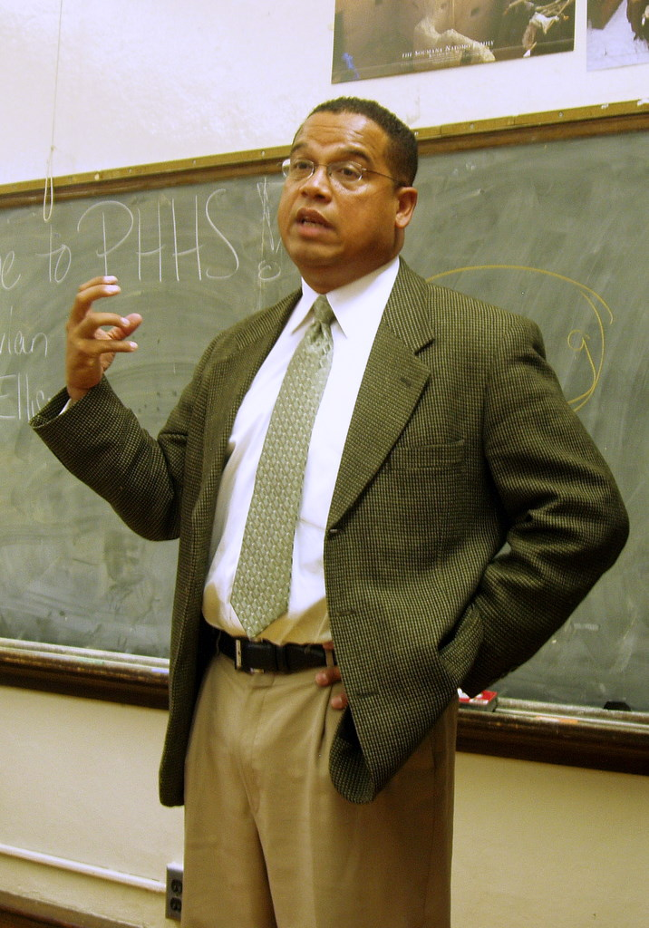 Keith Ellison on 9-21-06, taken by user.